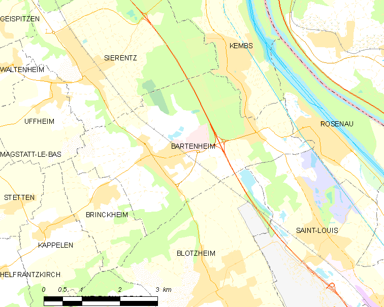 Map of French municipality